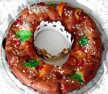 tortell de reis, a Catalan pastry